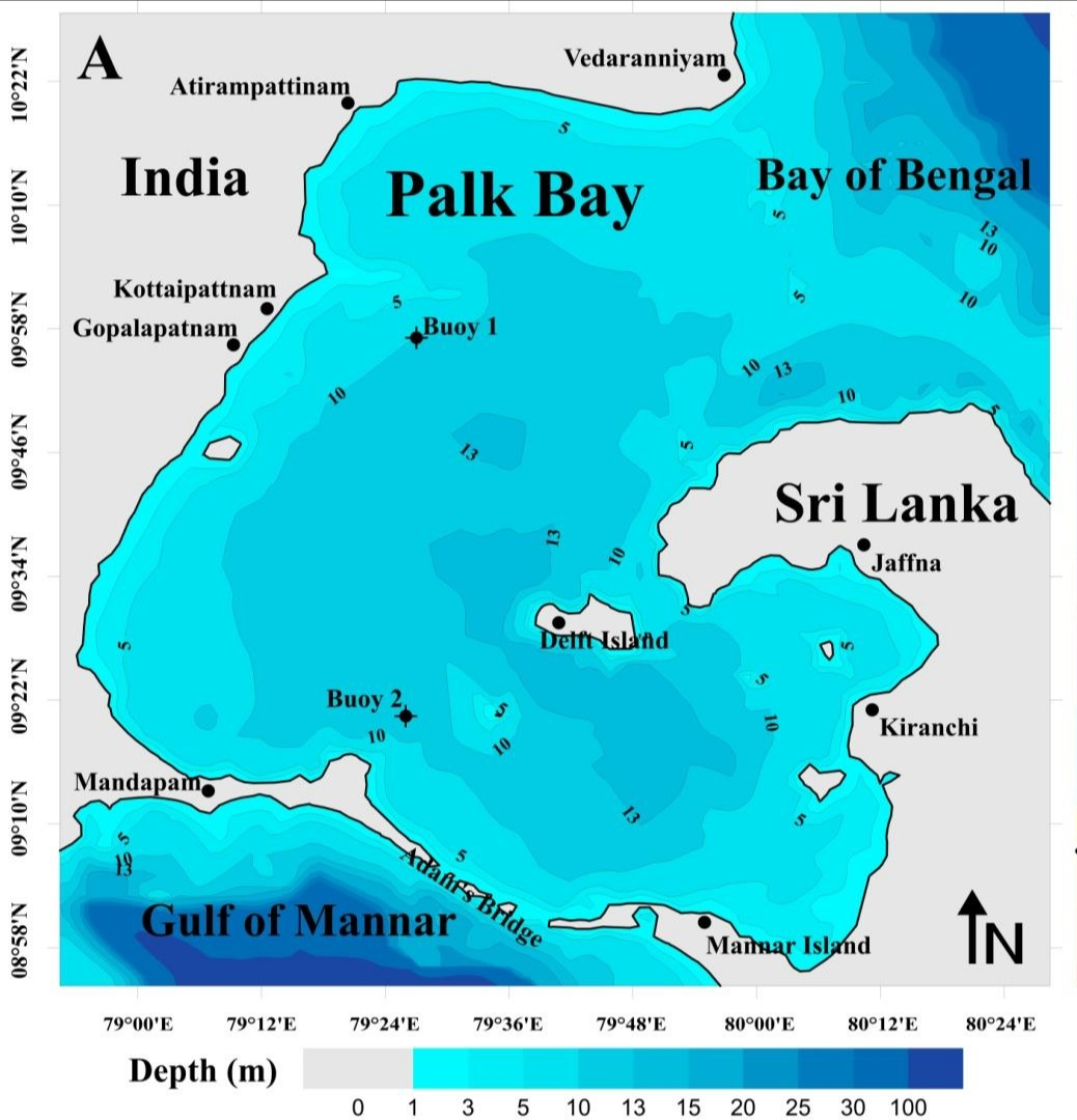 Bathymetry of Palk Bay, an interpolated output from the national hydrographic chart